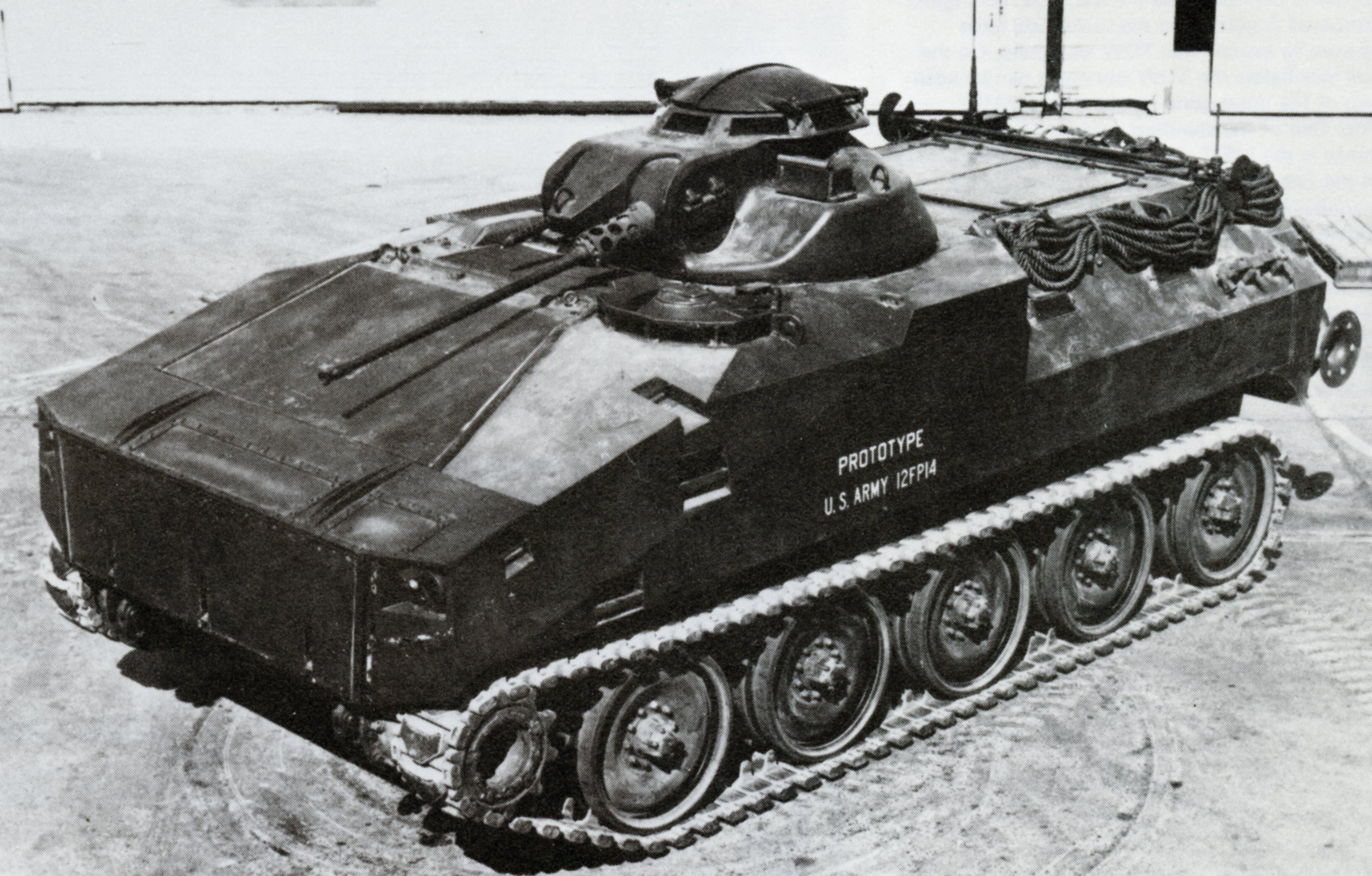 XM701 Mechanised Infantry Combat Vehicle (MICV-65), pilot number 4 during tests. The vehicle has the following text marked on its side: "PROTOTYPE U. S. ARMY 12FP14"